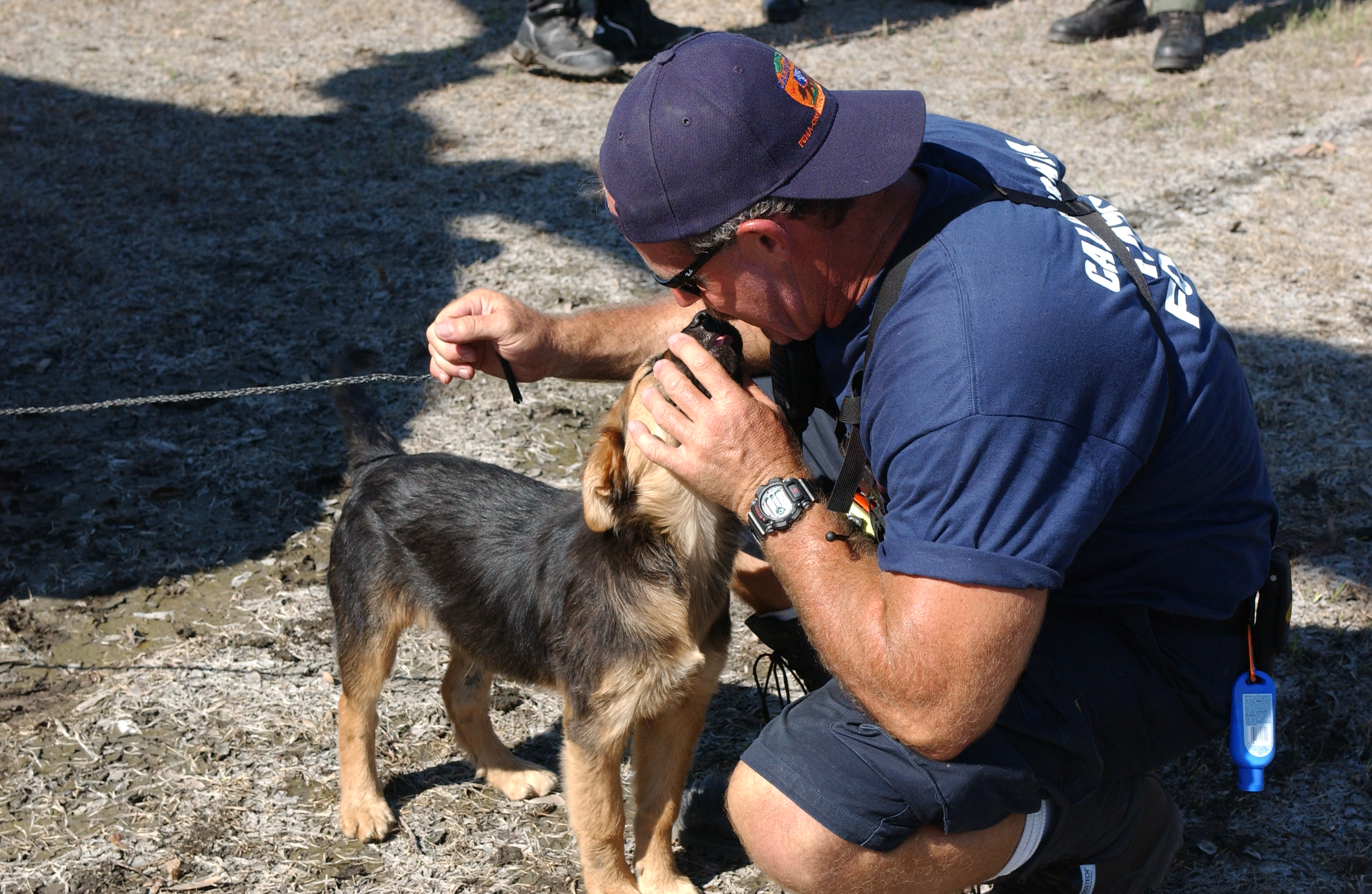 New Orleans, LA, September 7, 2005 -- A FEMA Urban Search and Rescue worker pets a stray dog in a neighborhood impacted by Hurricane Katrina. Jocelyn Augustino/FEMA